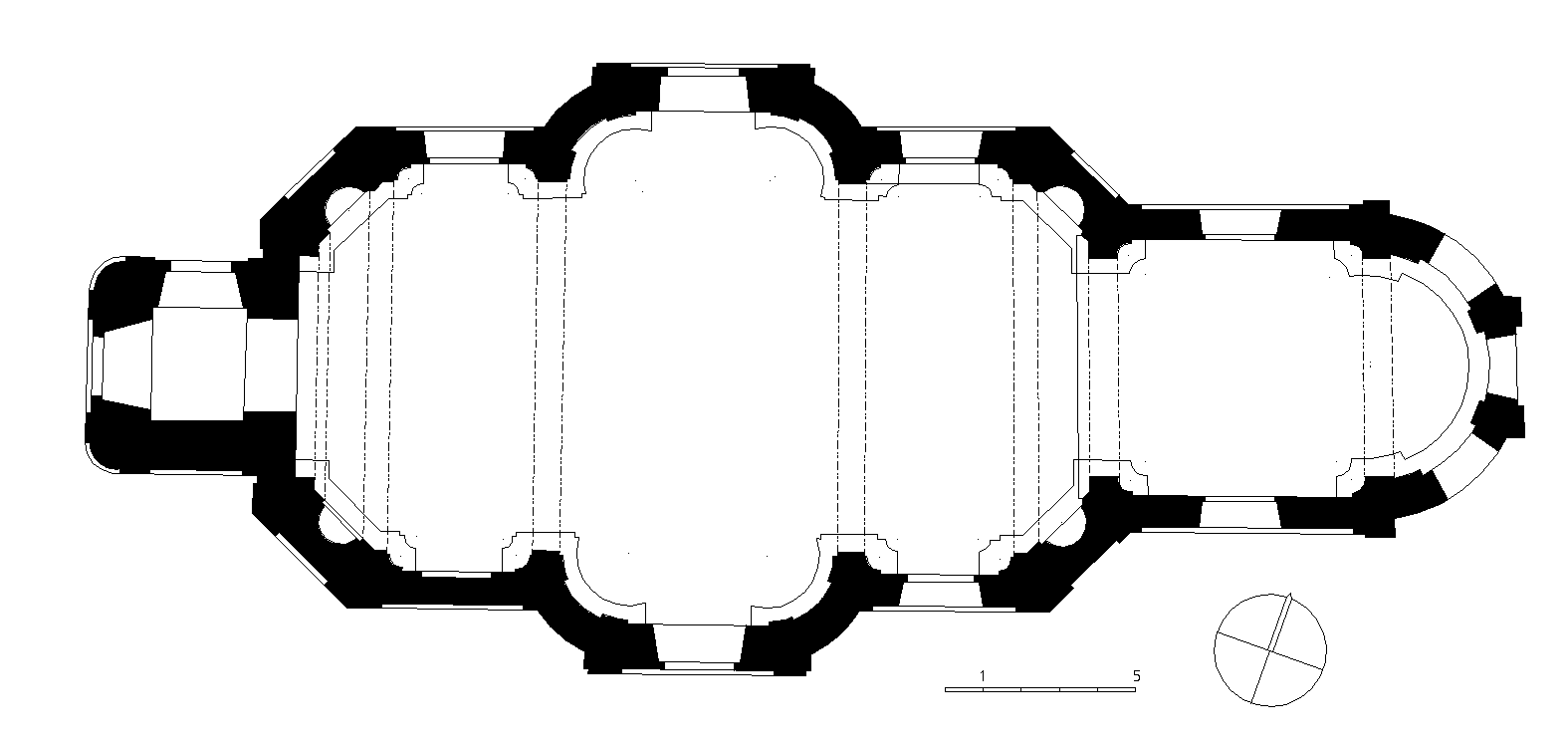 this is a redrawing scan of picture from book "Kilián Ignác Dientzenhofer a umělci jeho okruhu"